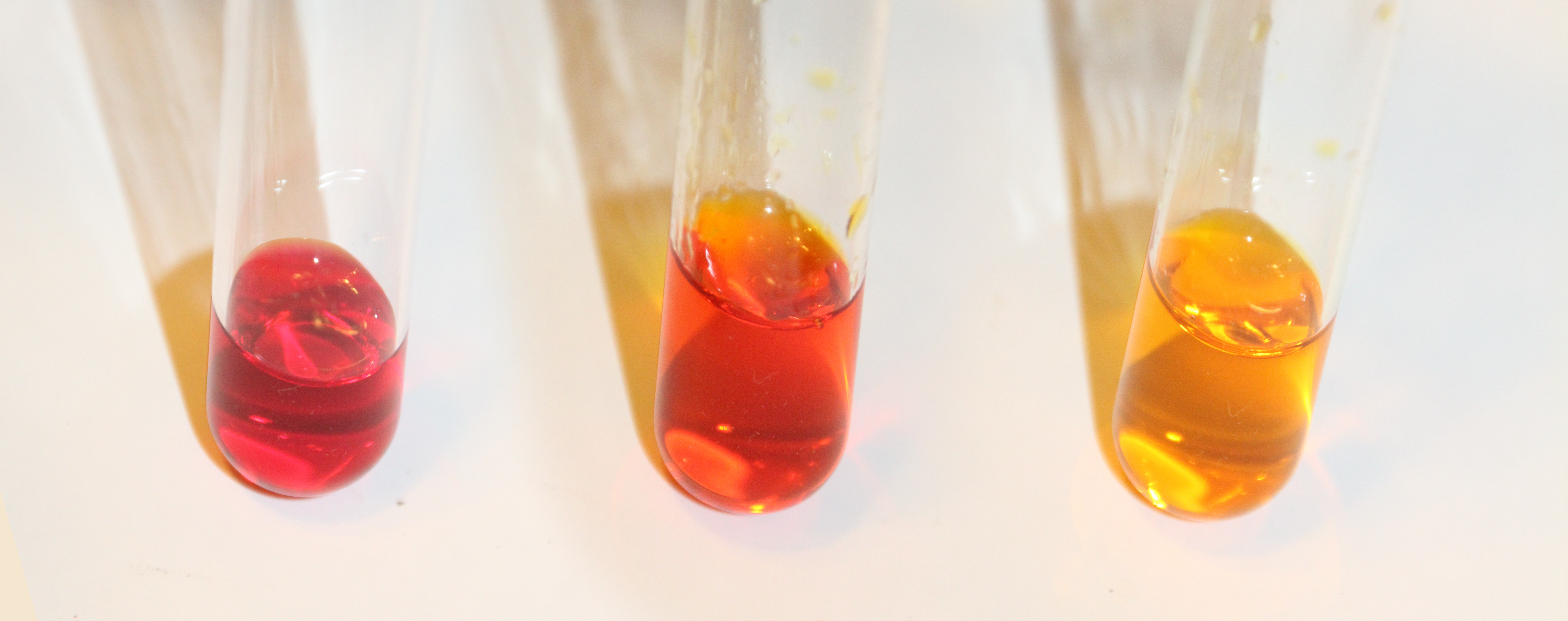 A photo describing the color change of methyl red sodium salt solution at different acid-base conditions, left: acidic, middle: neutral, right: alkaline